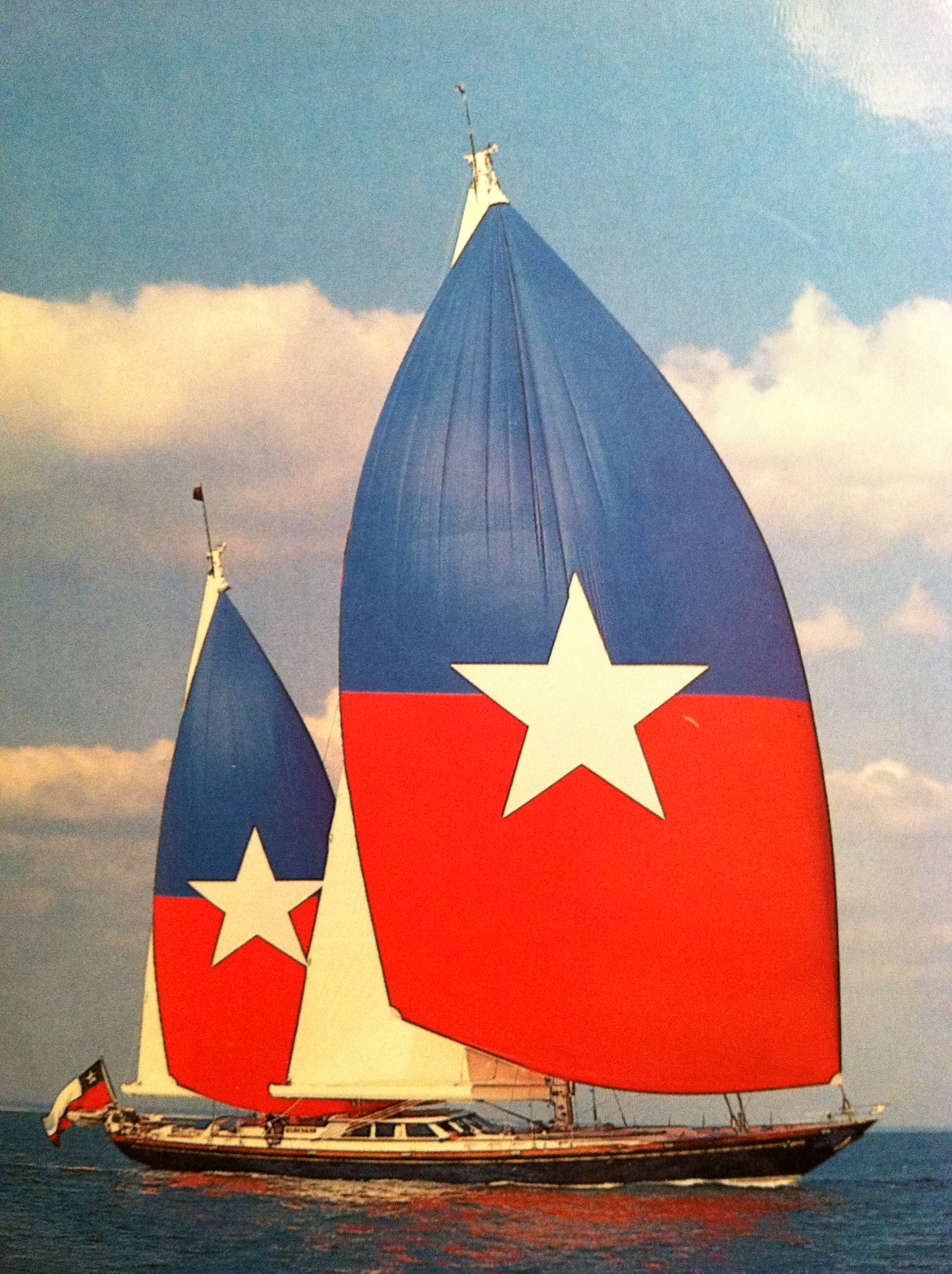 the yacht Anakena, built in 1996 at the Royal Huisman shipyard.